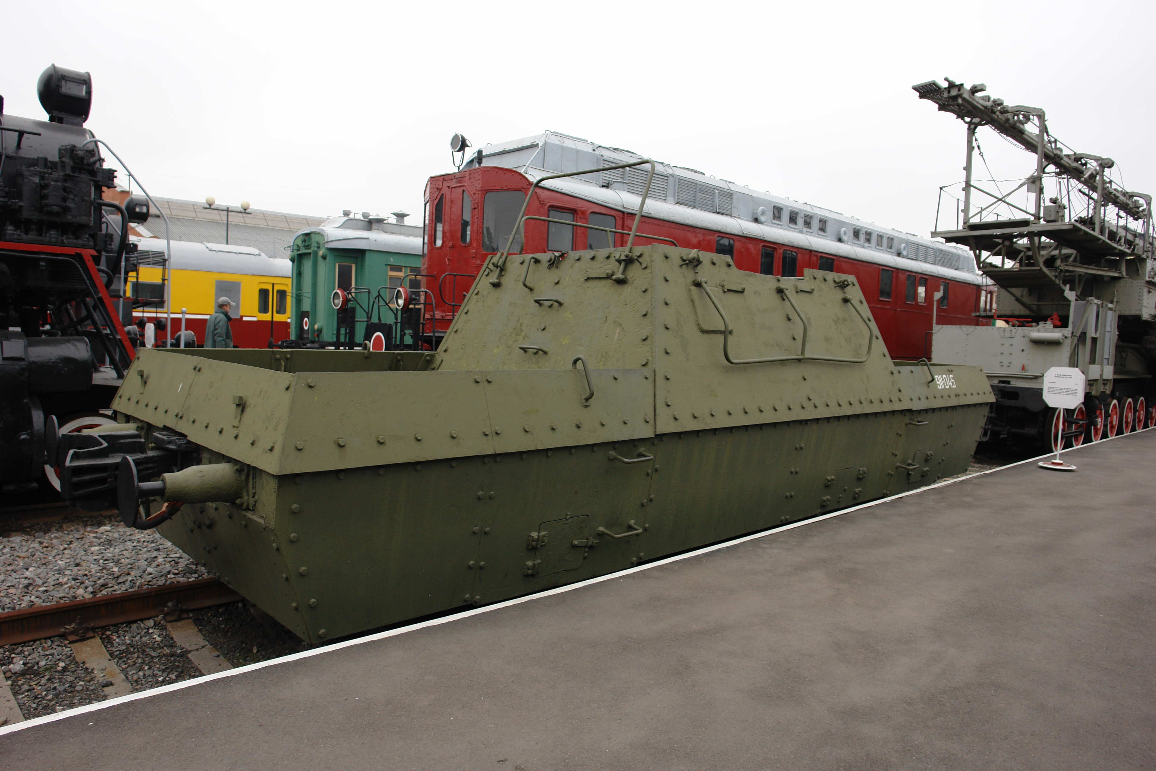 2-axle armoured wagon No 911-045 Tare weight 22 t. Built using a flat wagon that had been made bv the Khar'kov Works in 1935. During the World War II armoured wagons equipped with anti-aircraft guns or machine guns were used to protect trains from enemy air attacks.